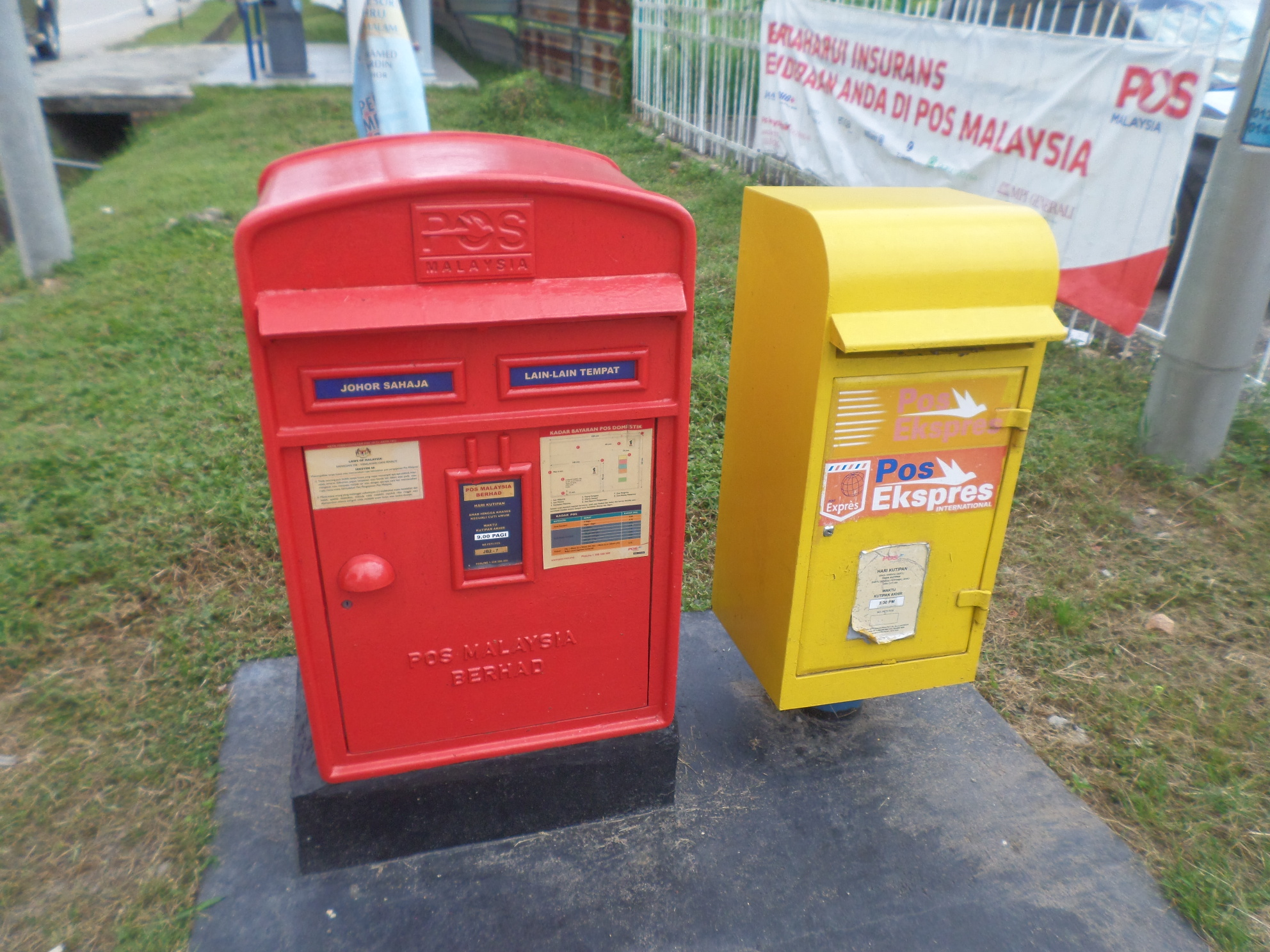 Gelang Patah Post Office Mailbox, Gelang Patah Post Office, Gelang Patah, Johor Bahru, Johor, Malaysia